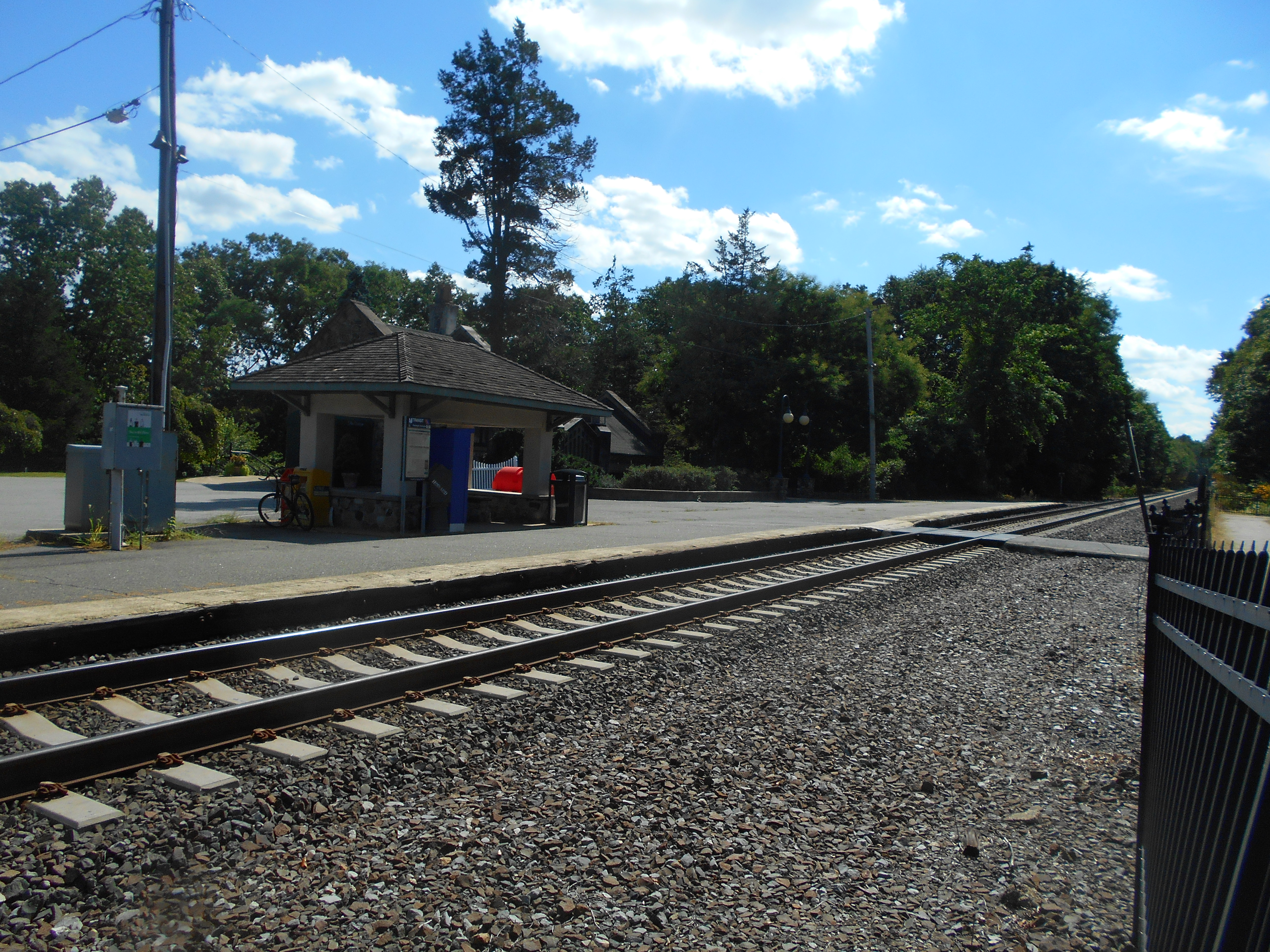 The platform at Mountain Lakes in Mountain Lakes, New Jersey in September 2014.